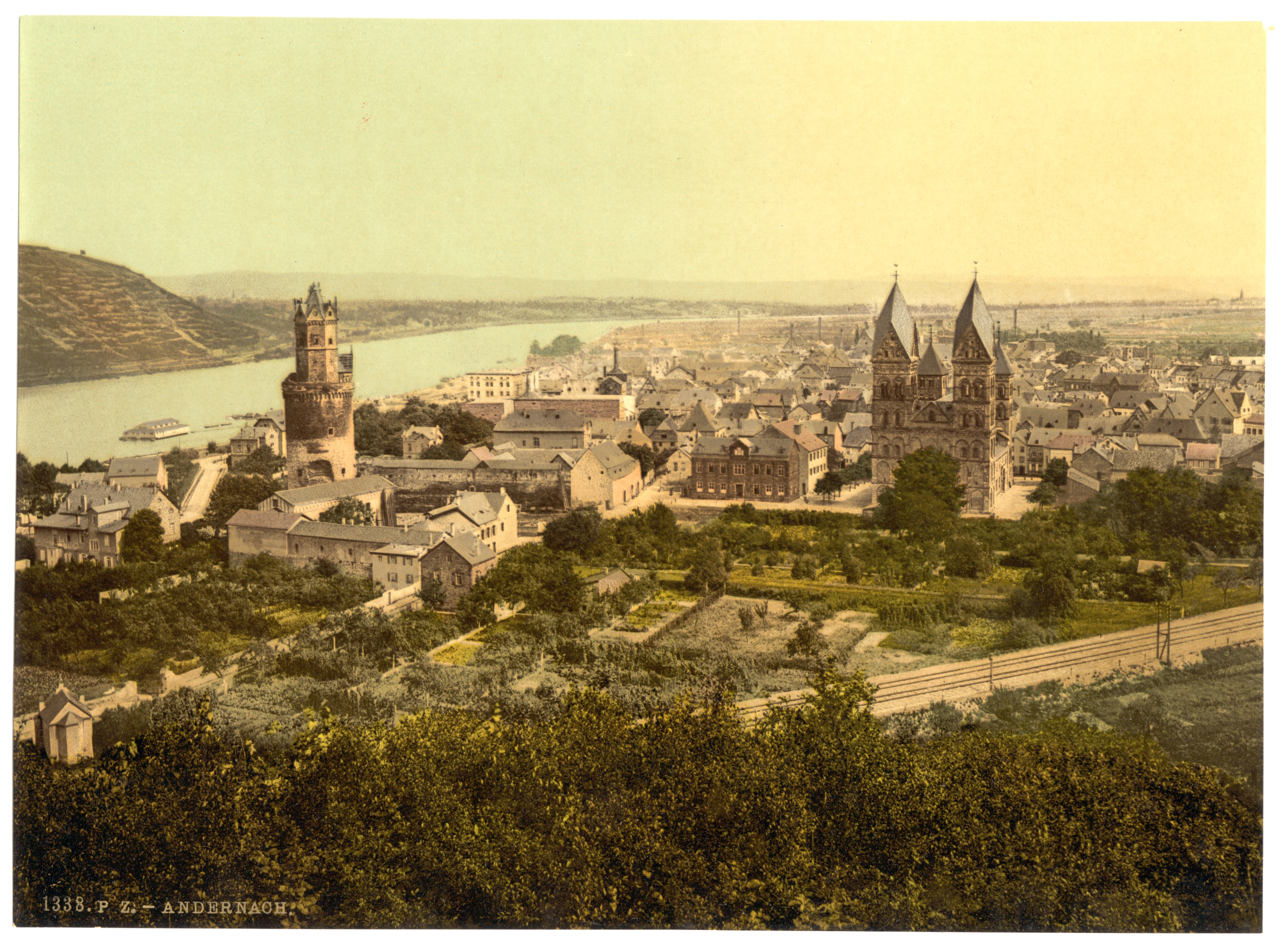 Andernach about 1900